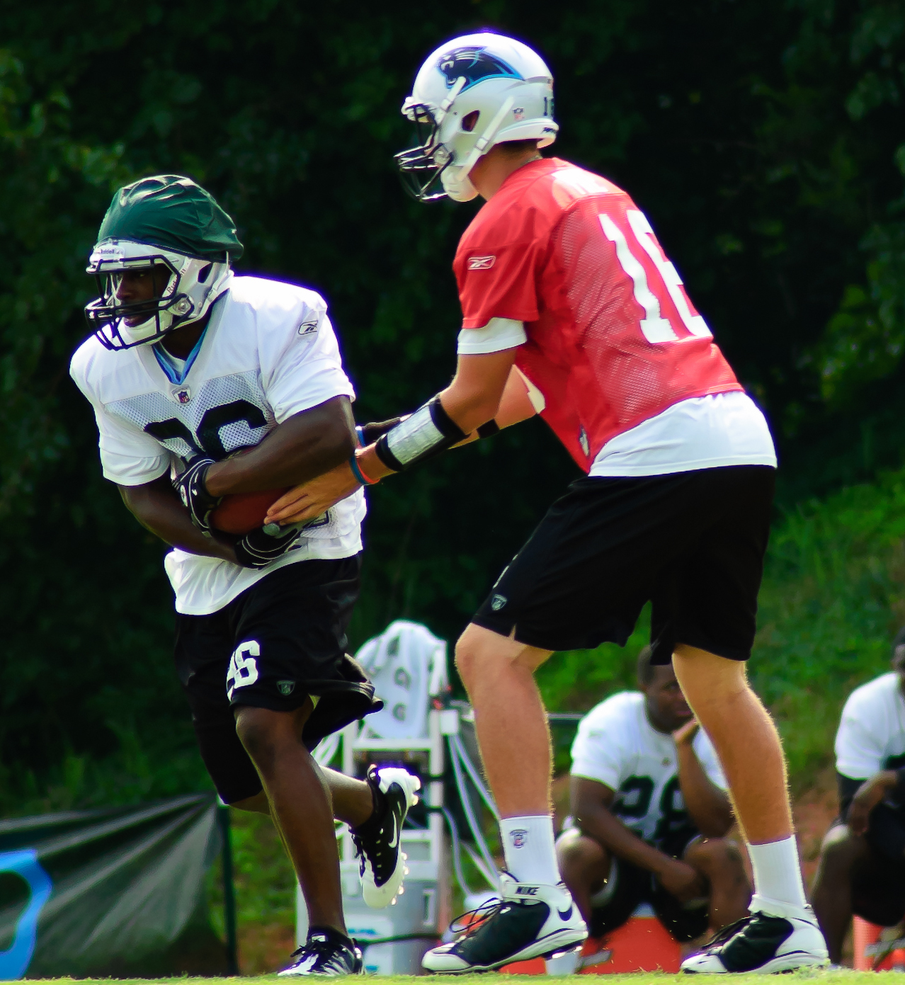 Carolina Panthers Training Camp on August 11, 2010 at Wofford College in Spartanburg, SC.